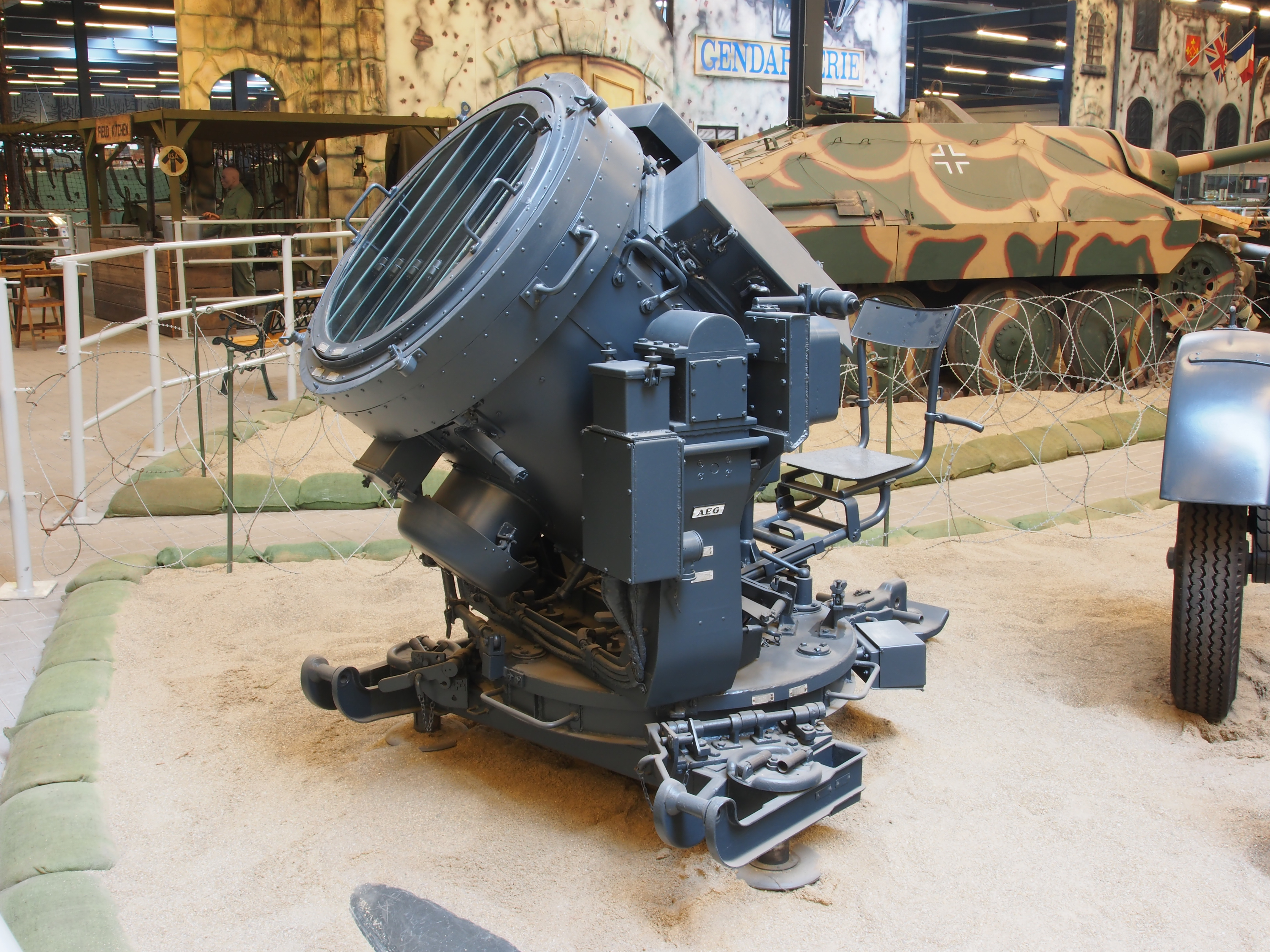 AEG search light